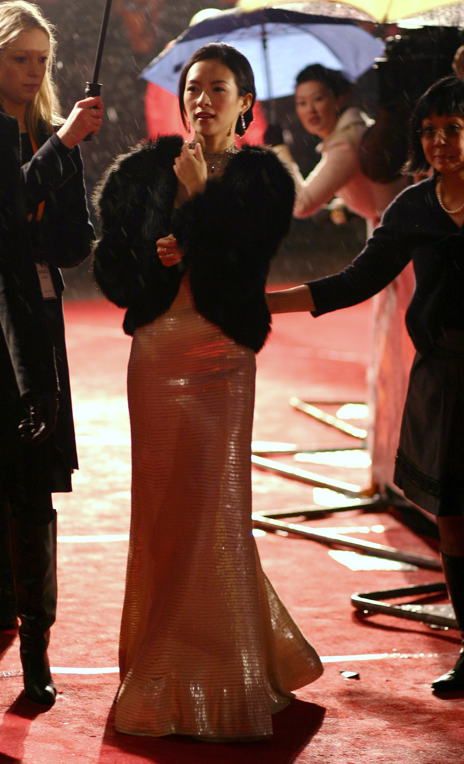 Zhang Ziyi at the 2006 BAFTAs in London Bân-lâm-gú: 章子怡出席佇倫敦的2006年英國電影佮電視藝術學院的頒獎典禮。Tsiunn Tsú-î tshut-si̍k tī Lûn-tun ê 2006-nî Ing-kok Tiān-iánn Kah Tiān-sī Ha̍k-īnn ê pan-tsióng tián-lé.